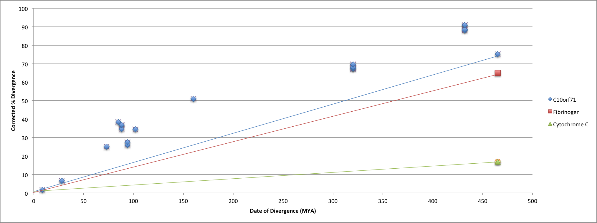 C10orf71 vs. Fibrinogens vs cytC